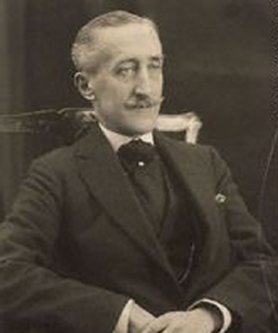 Freeman Freeman-Thomas, governor general of Canada